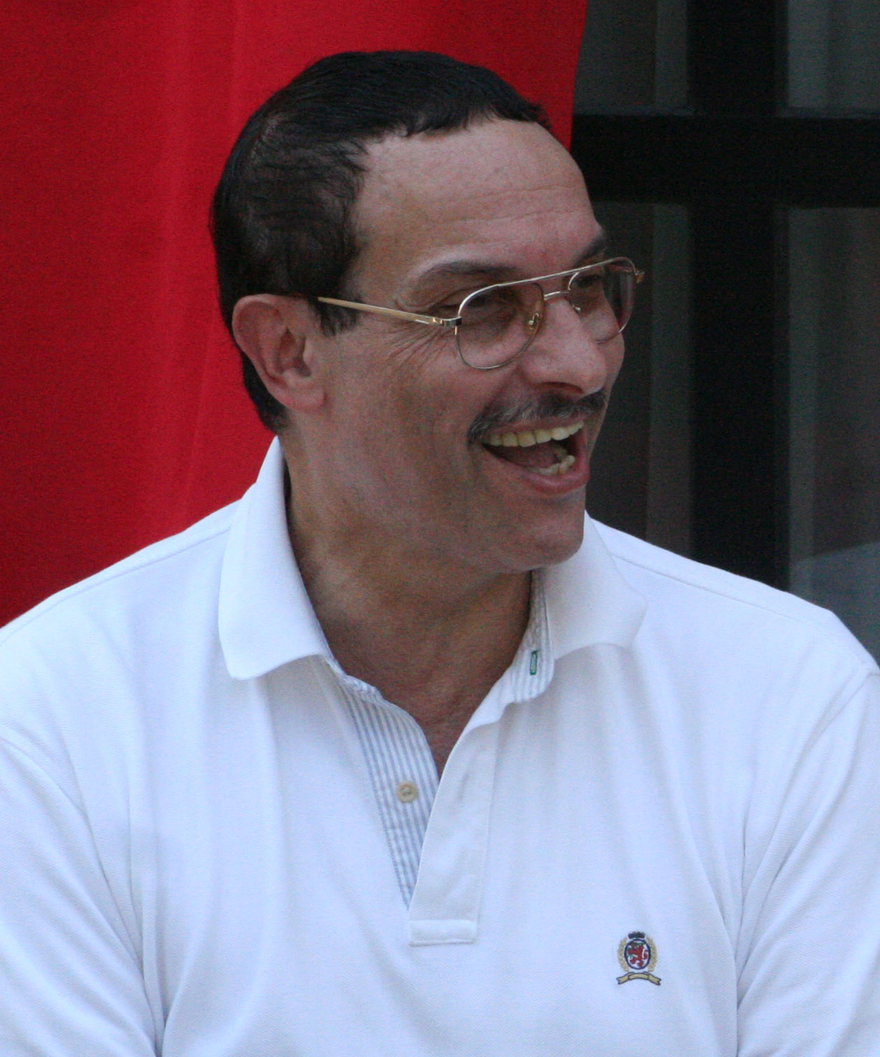 Honorable Vincent Gray, Chairman of the DC City Council at the dediction of the AIDS Memorial at the Dupont Circle Metro, Q St. metro